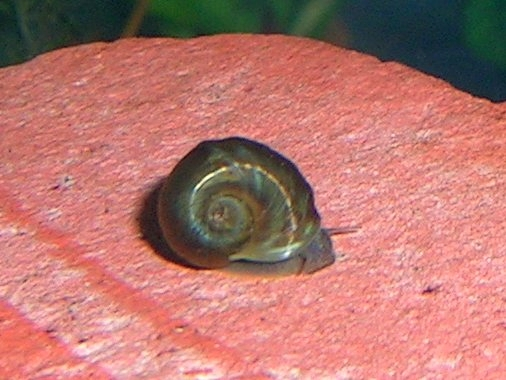 An aquarium ramshorn snail, unknown species